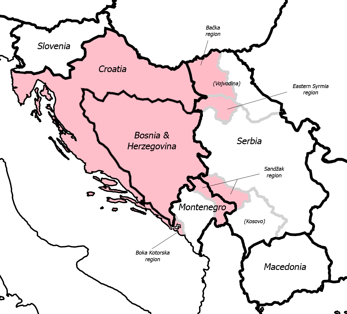 Fixed some detail, used overlaid Sandzak, Backa & Syrmium regions so it's much more accurate now. Pink coloring denotes regions claimed by Greater Croatian proponents. Current country borders are black, regional borders (only those that are relevant to the article) are grey. Comment Map is still wrong:) Croatian-Slovenian border in Istria is 20 kilometars southern that it should be (Umag and Savudrija are in Croatia, hej!) And borders of eastern Srijem are not correct (Zemun and Novi Beograd are part of Srijem, too). I fixed the Istria issue, but keep in mind that this map is just a general illustration of the point in question, nothing more. Also, I don't think Belgrade region was ever claimed as a part of Greater Croatia (although anything is possible I guess) so I left it out. --Dr.Gonzo 10:52, 13 March 2007 (UTC) My map at home has Croatia and Italy touching, so the Greater Croatia map on this page needs to cover a slice of Slovenia for that to be happening. The rest of the map is proportionate to the one I have. Plus doesn't it seem odd to anyone that on this map is no Slovenian territory claimed?